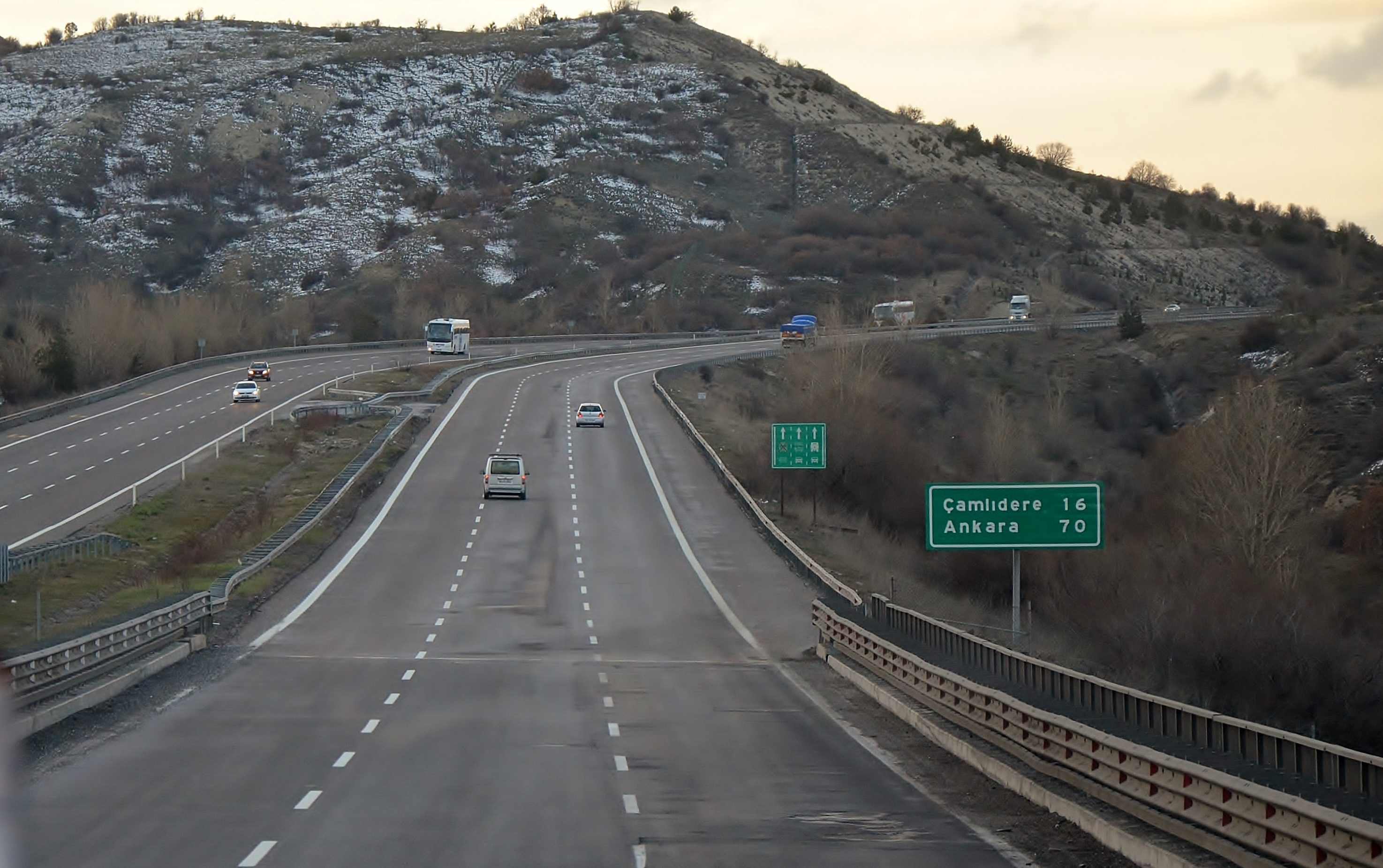 Motorway O-4 in Turkey